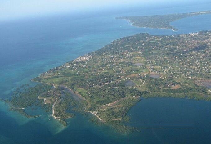 Mtwara town on the coast of the Indian ocean from the air - South Tanzania